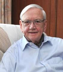 Image of Noel_White